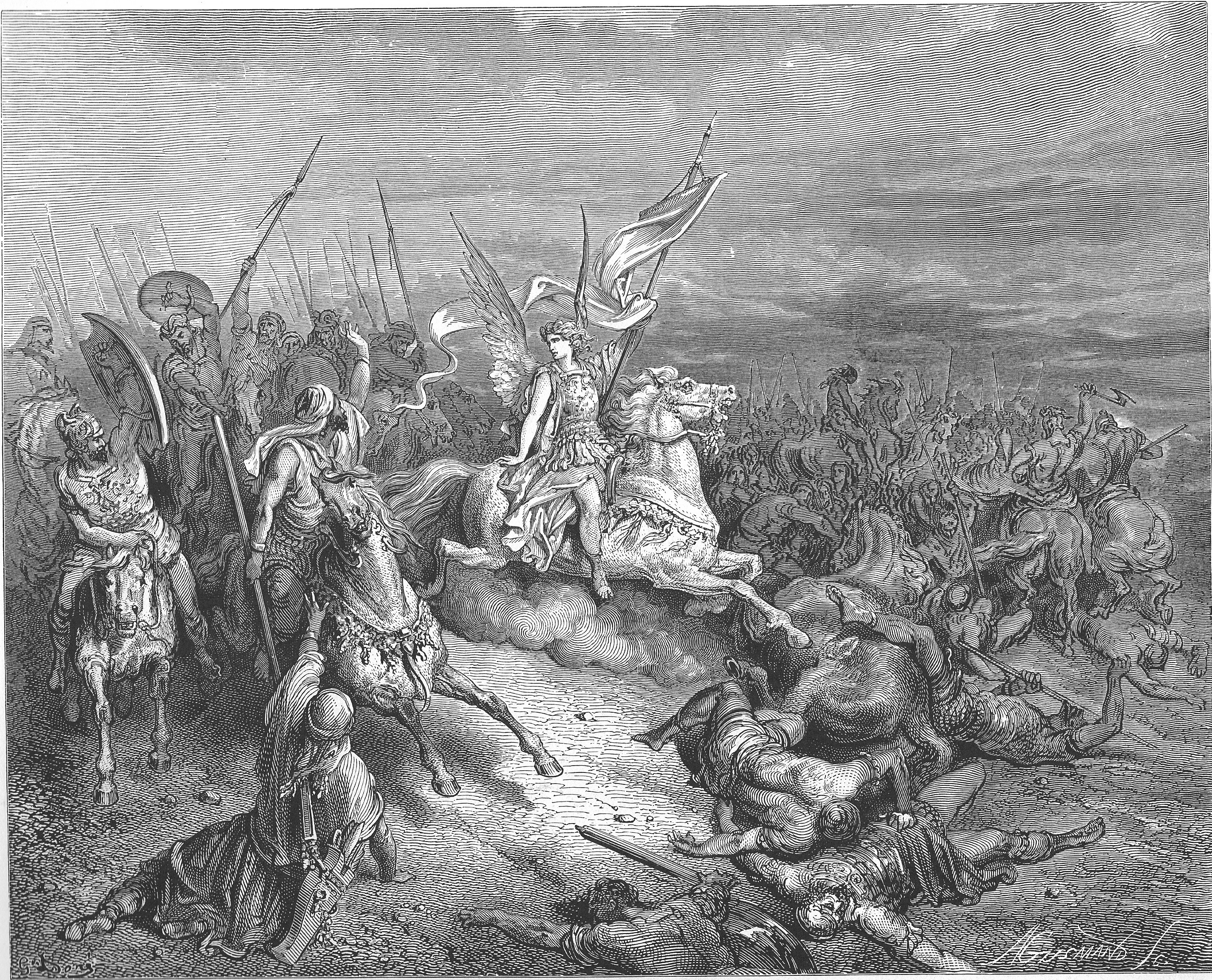 The Angel Is Sent to Deliver Israel (2 Macc. 15:20-24)